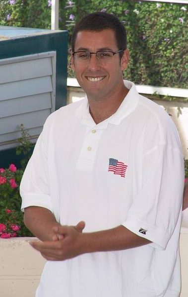 Sandler, Adam at Cannes in 2002. My own picture. Created by Rita Molnár 2002.